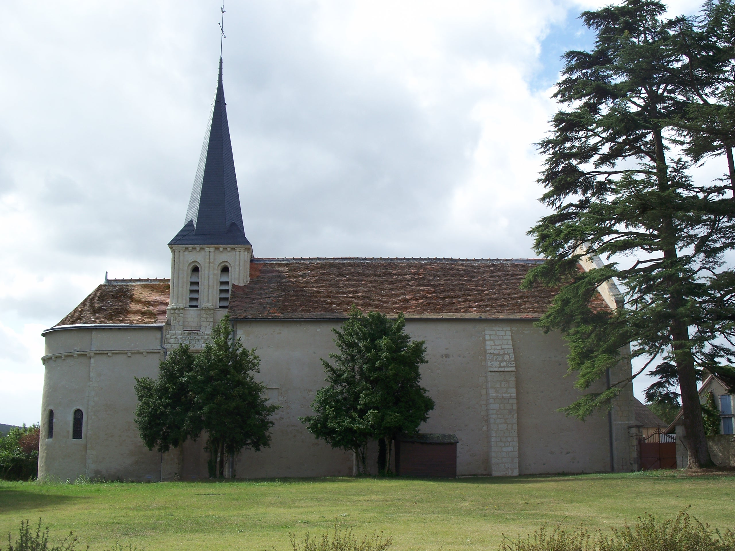 Église Saint-Léger de Virey (Inscrit) .